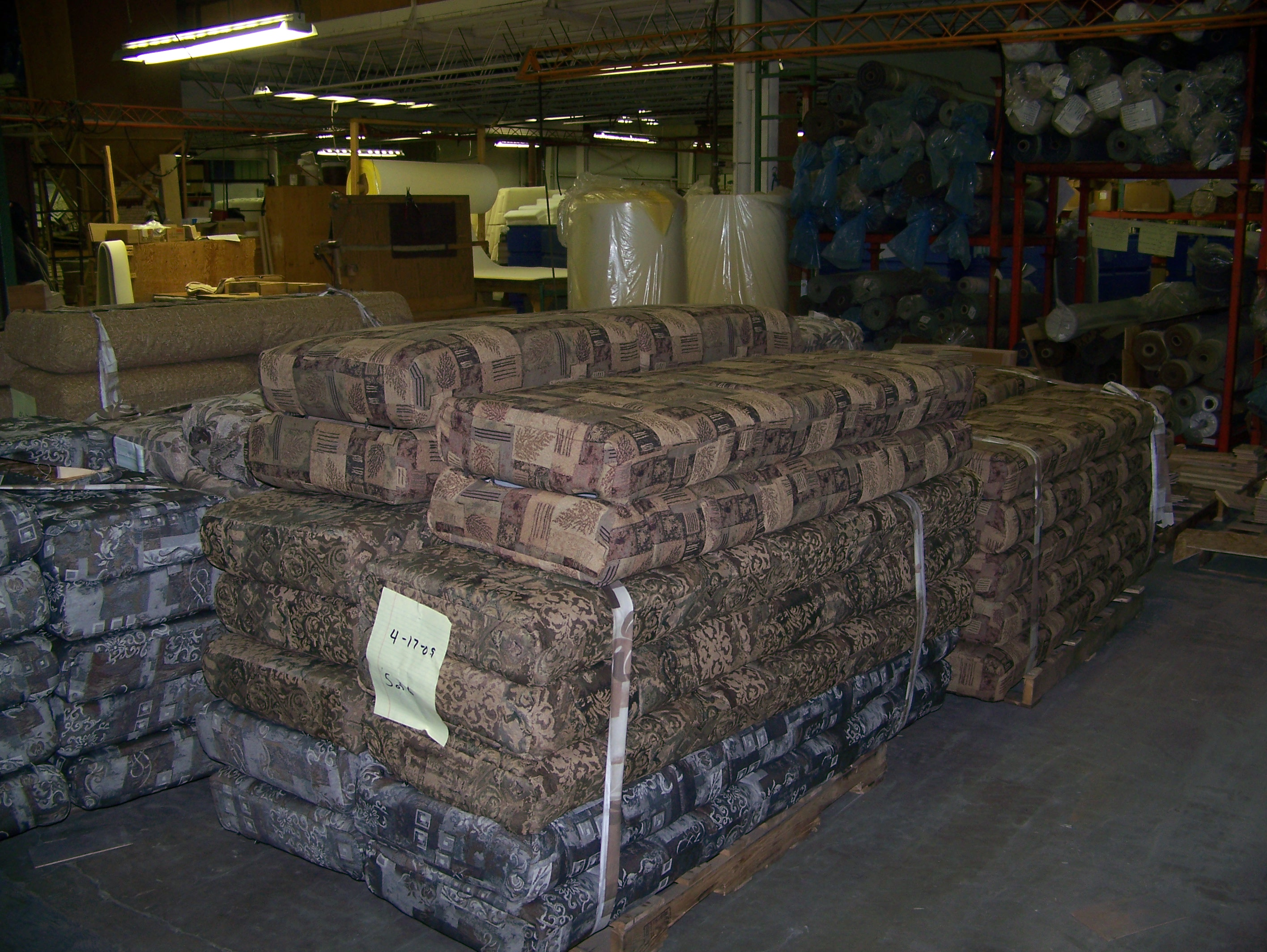 Jayco factory tour